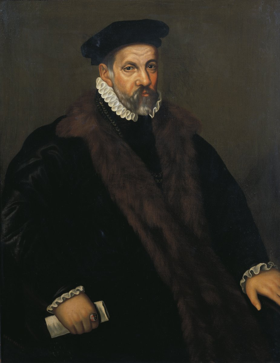 copy of a 16th century portrait by an unknown Flemish artist